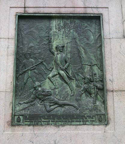 A plaque commemorating the American Victory at Harlem Heights during the American Revolutionary War.